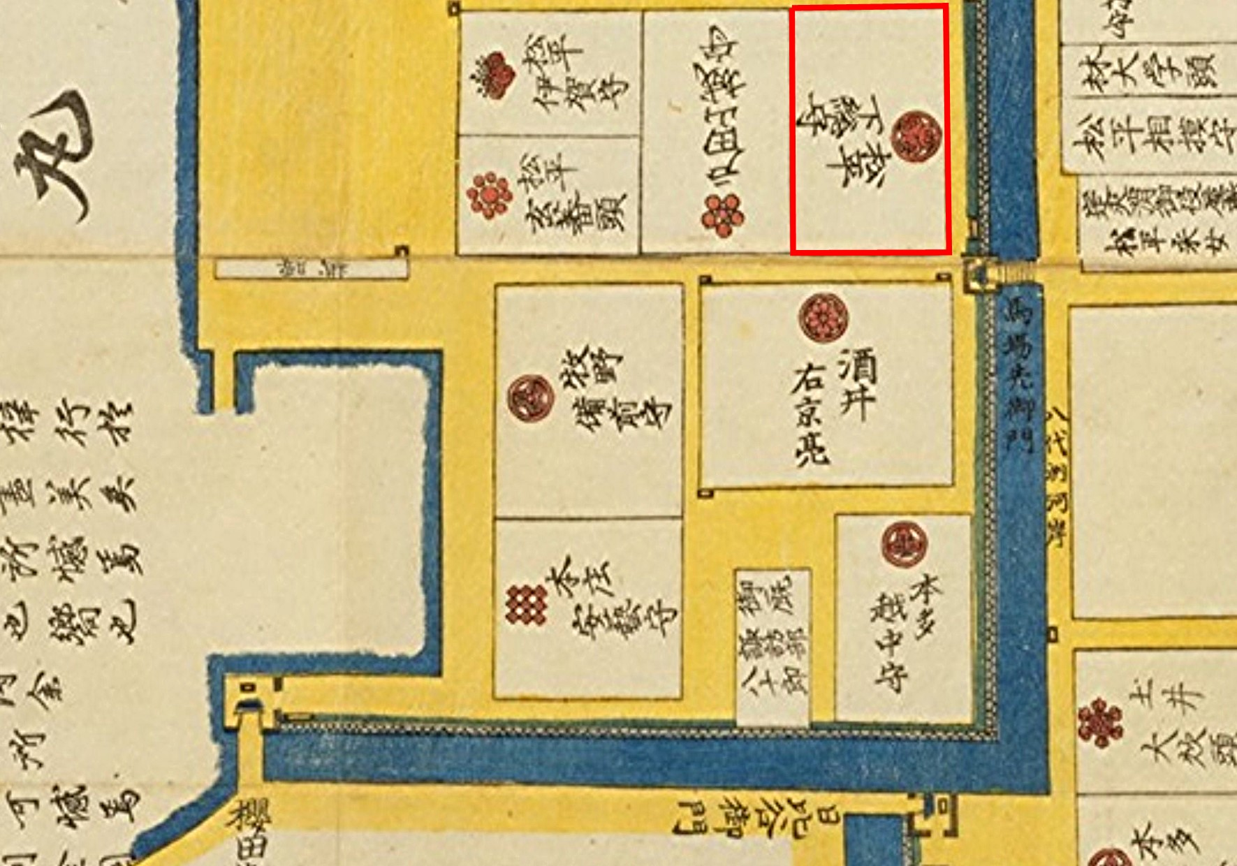 Residence Matsudaira (Okudaira) at Edo